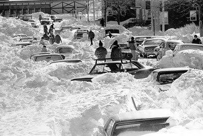 People standing around trying to figure out what to do.